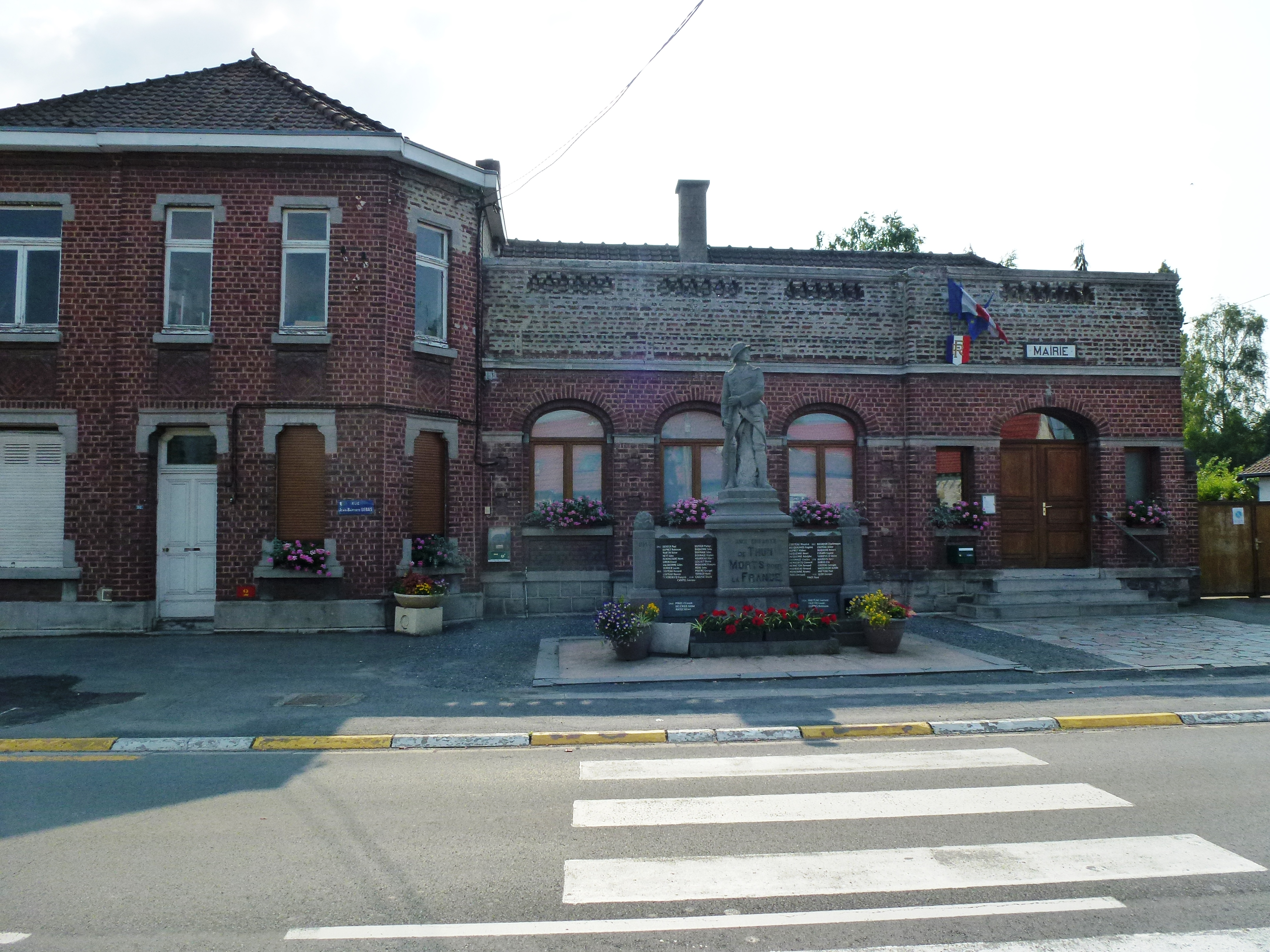 Thun-Saint-Amand (Nord, Fr) mairie